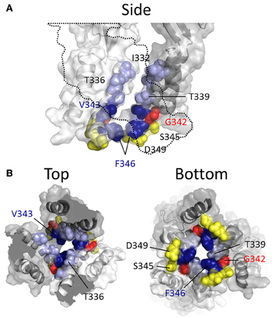 Mapping P2X2R TM2 substituted cysteine side chains capable of coordinating Cd2+ in the open channel state